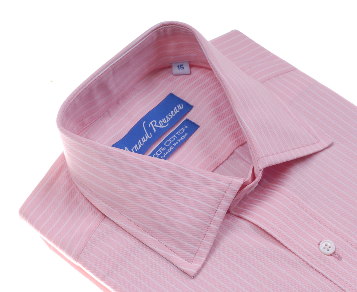 Luxire Dress Shirt by Arnaud Rousseau with a modern spread collar